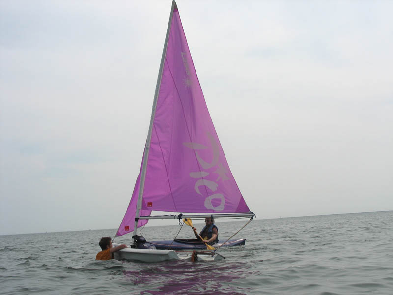 Laser Pico, one design